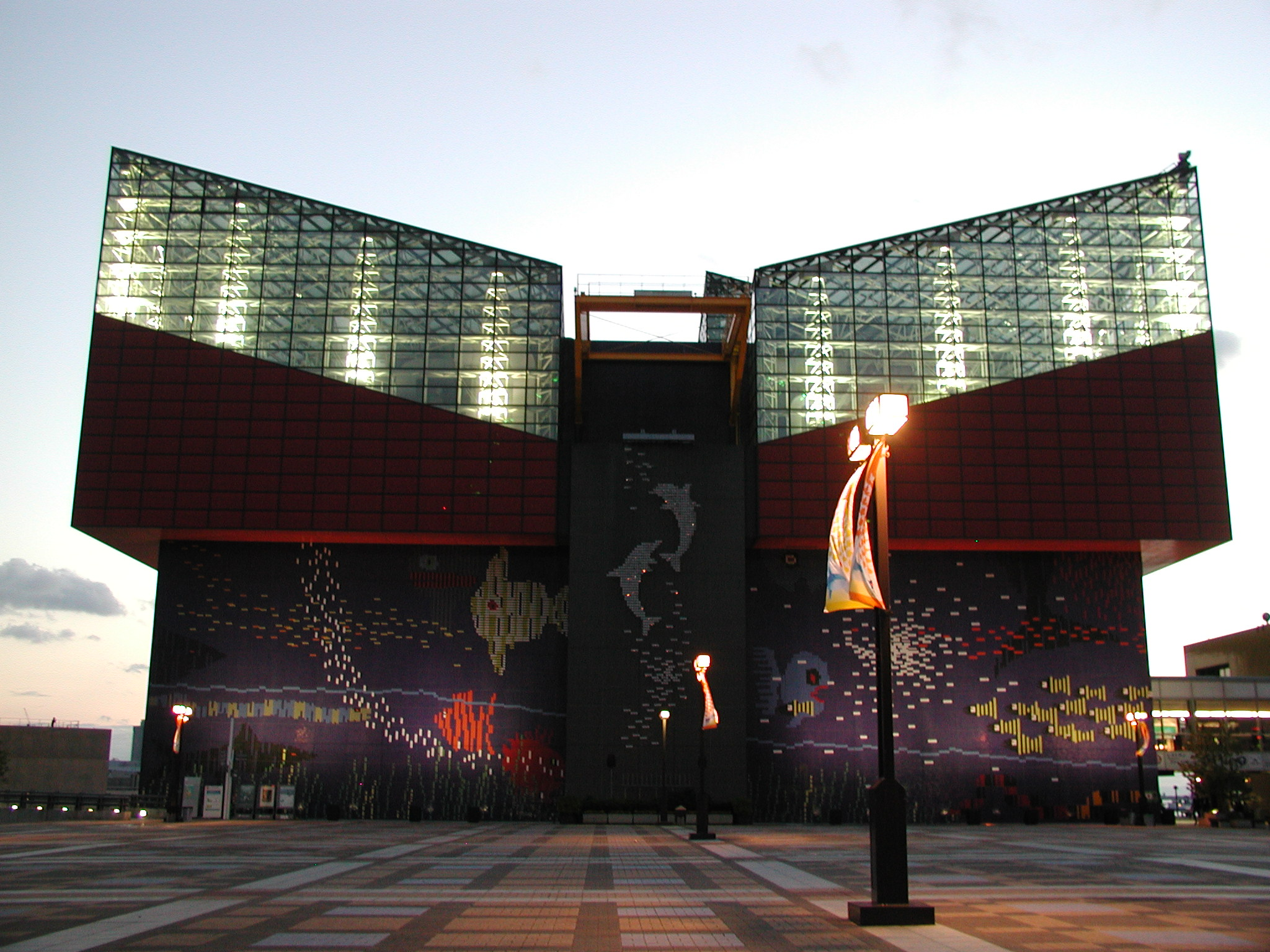 Kaiyukan Aquarium in Osaka, Japan.